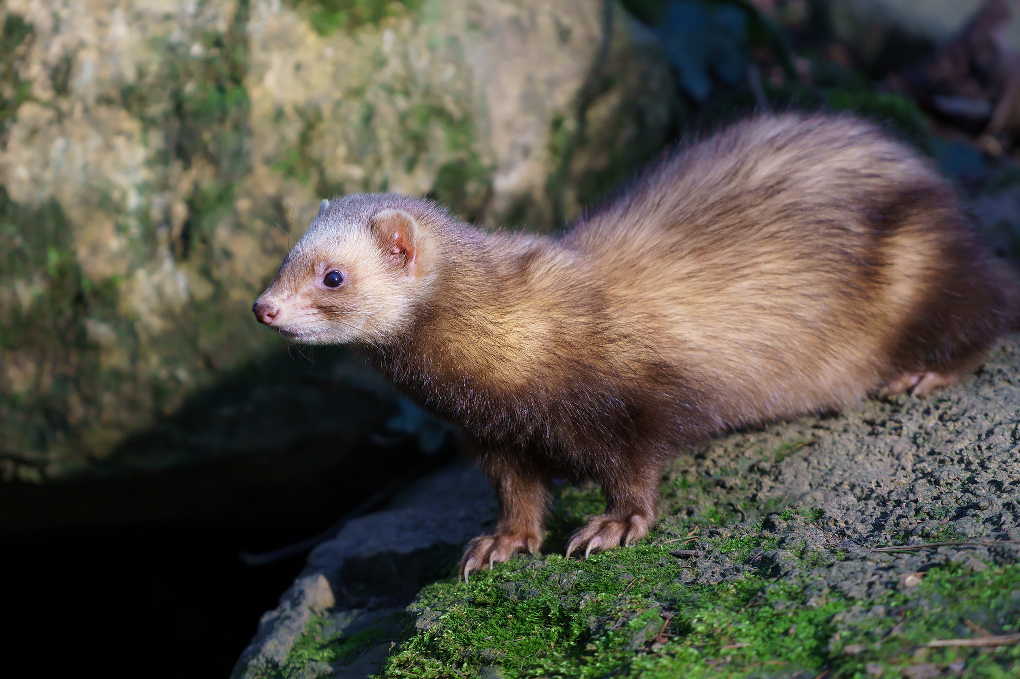 500px provided description: Bad Mergentheim, Germany [#beauty ,#color ,#nature ,#light ,#outdoor ,#bokeh ,#beautiful ,#animal ,#cute ,#green ,#alpha ,#sony ,#germany ,#zoo ,#wildlife ,#portait ,#fur ,#wild ,#ferret ,#gr?n ,#mirrorless ,#6000 ,#Frettchen ,#2015 ,#Deutschland ,#Tier ,#Natur ,#ilce ,#a6000 ,#fe70200/4]